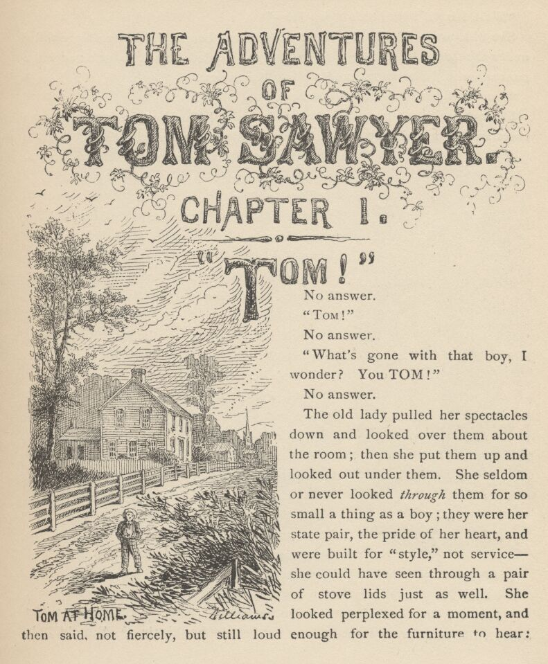 Illustrations de The Adventures of Tom Sawyer, 1876.